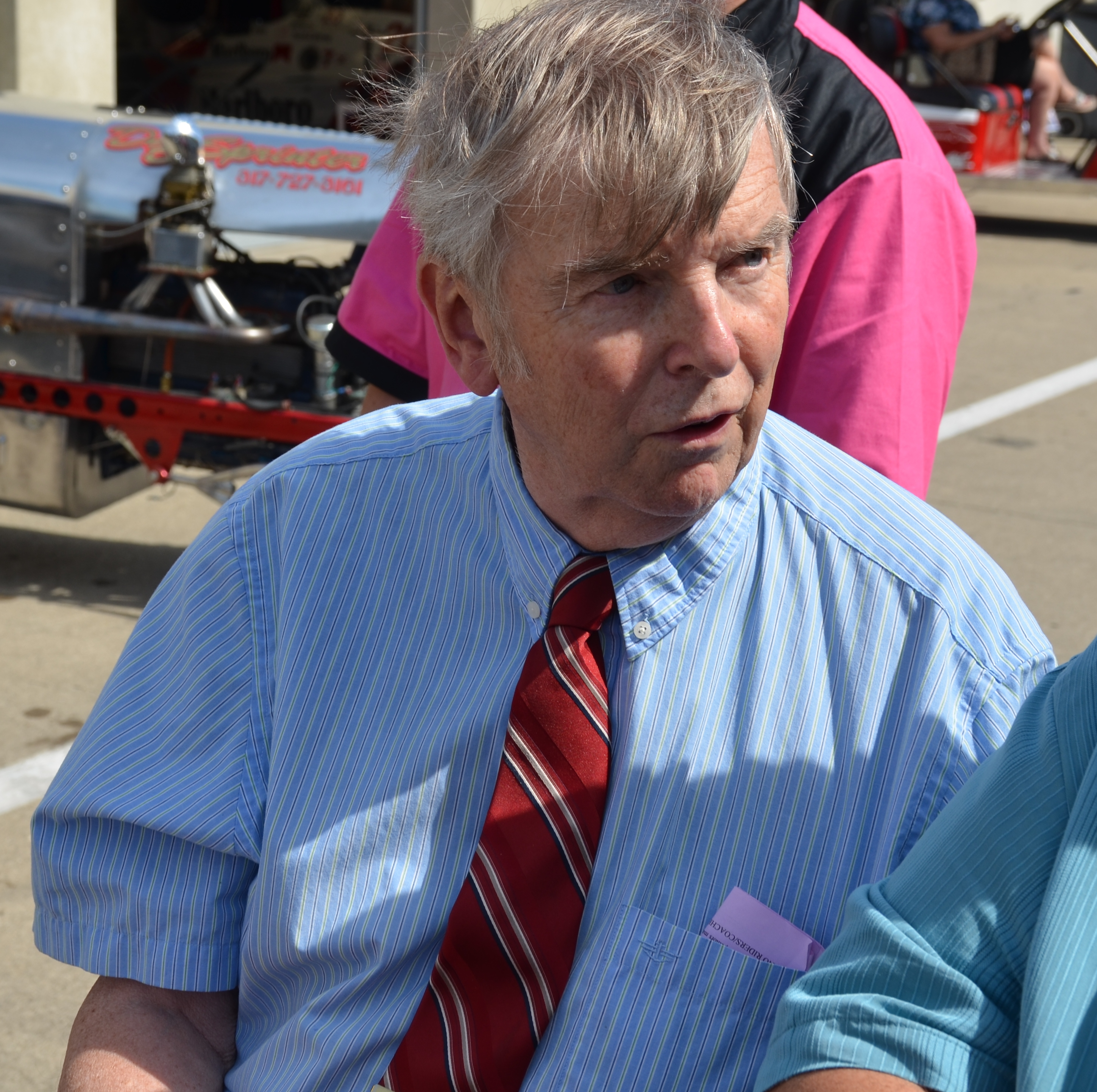 Donald Davidson at the 2016 Brickyard SVRA event at the Indianapolis Motor Speedway.